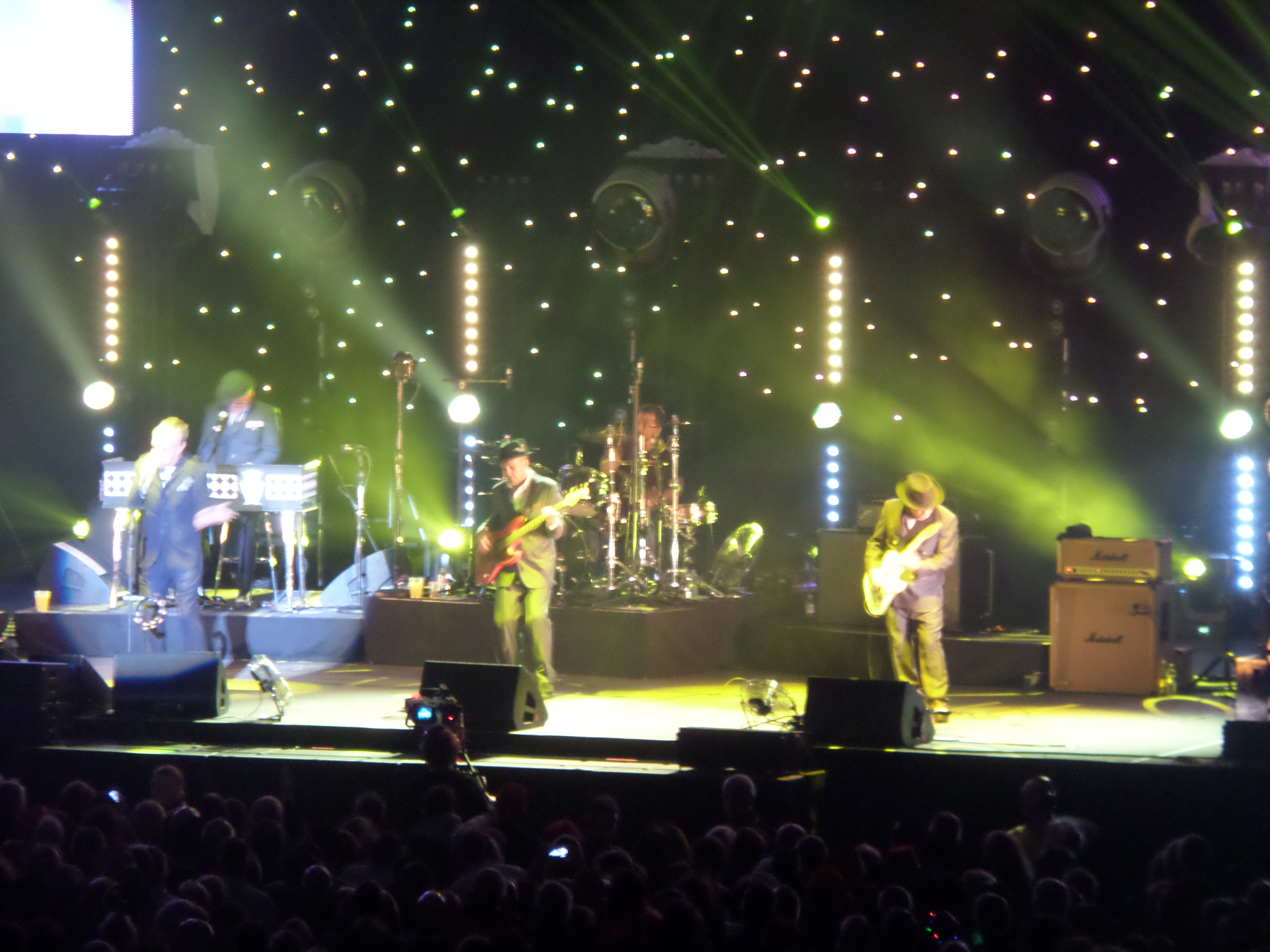 Madness at performing live at Manchester Arena in 2014